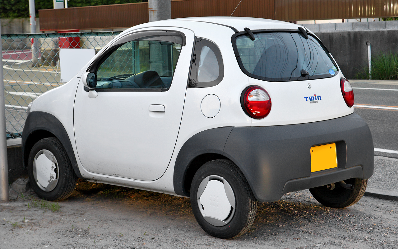 Suzuki Twin Gasoline V ( UA-EC22S Jun.2003 - Apr.2004 )